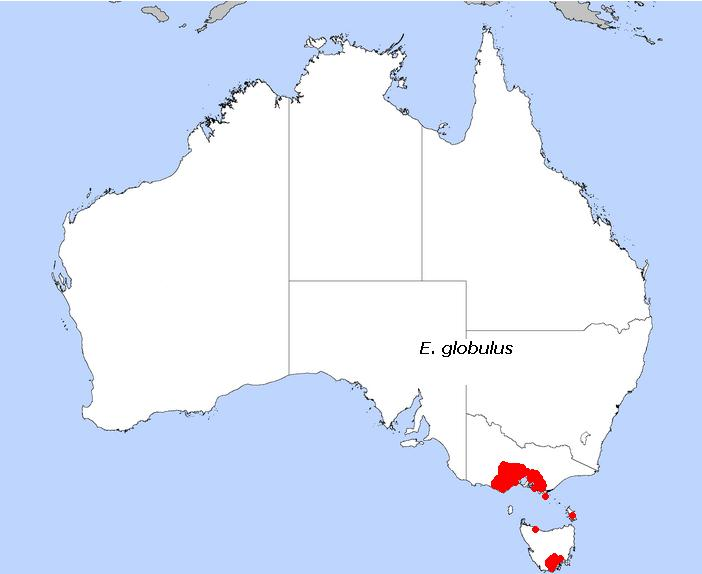 Distribution map of Eucalyptus globulus — Blue Gum, Tasmanian Blue Gum. Reproduction based on information provided on this map Image:E._globulus.JPG, Basis map is based on Image:Australia location map.png recoloured